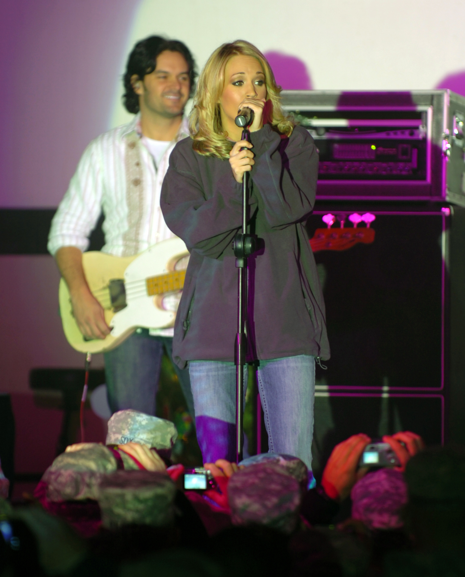 Country music star and American Idol winner Carrie Underwood performs in front of more than 2,000 enthusiastic servicemembers at Camp Buehring, Kuwait, Dec. 13.